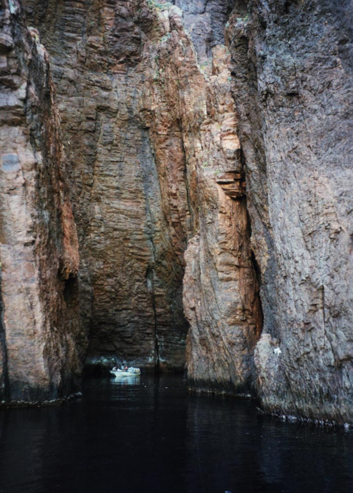 [de]: Felsbucht mit Touristenboot im Naturschutzgebiet la Scandola, Korsika[en]: seaside view (detail) of la scandola nature reserve (with tourist boat), Corsica